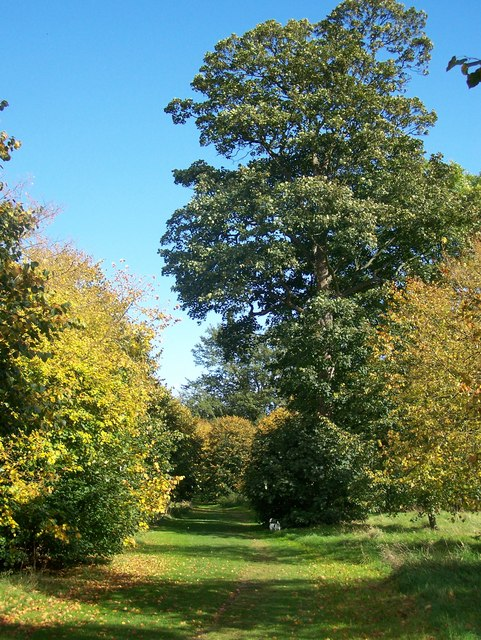 Autumn colour in Camer Country Park Established in 1971, Camer Park comprises of some 45 acres / 18 hectares, of grassland and mature trees. Also has a free carpark and nice little cafe.